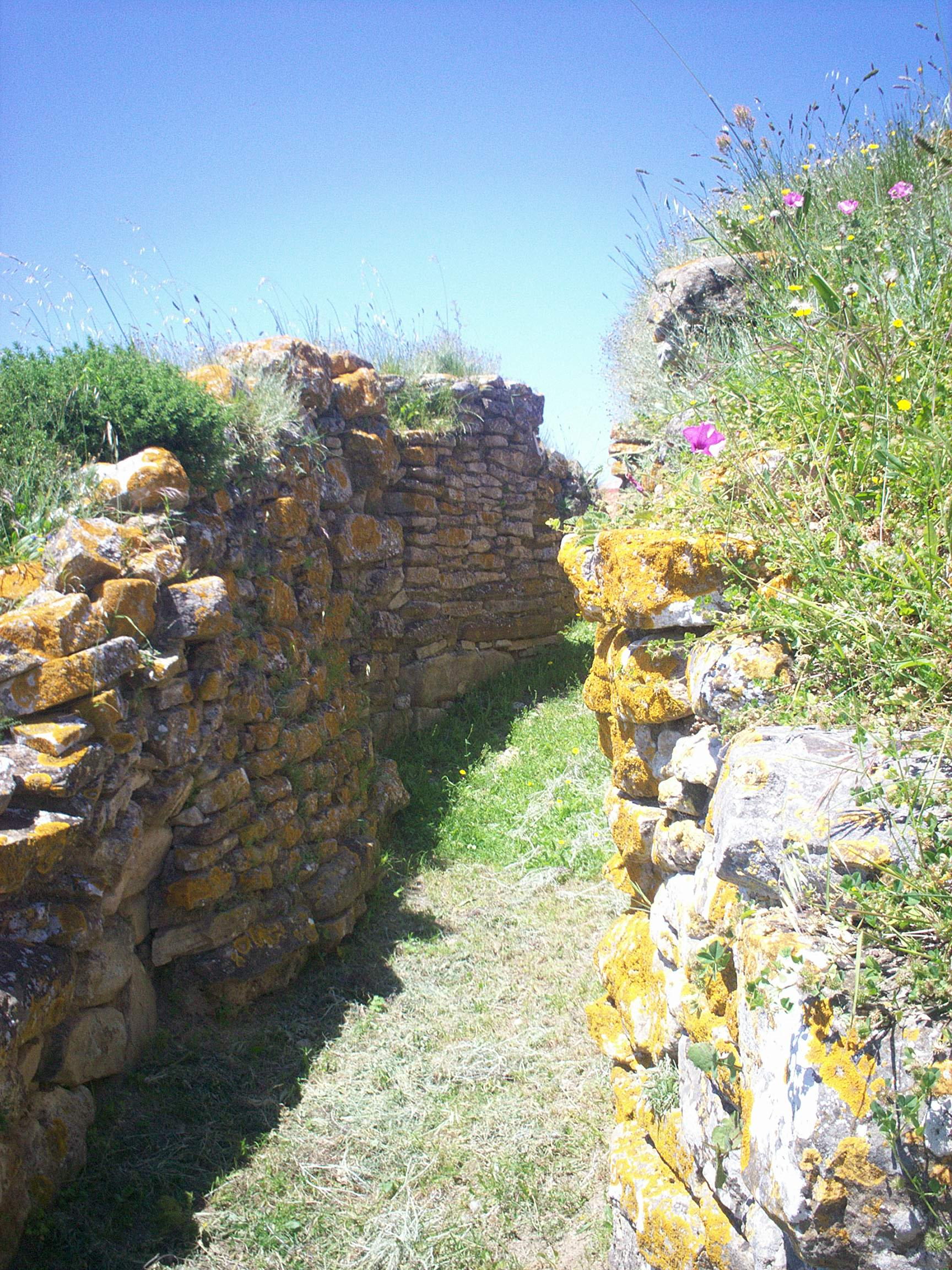 Castro Zambujal - access corridor to its core.